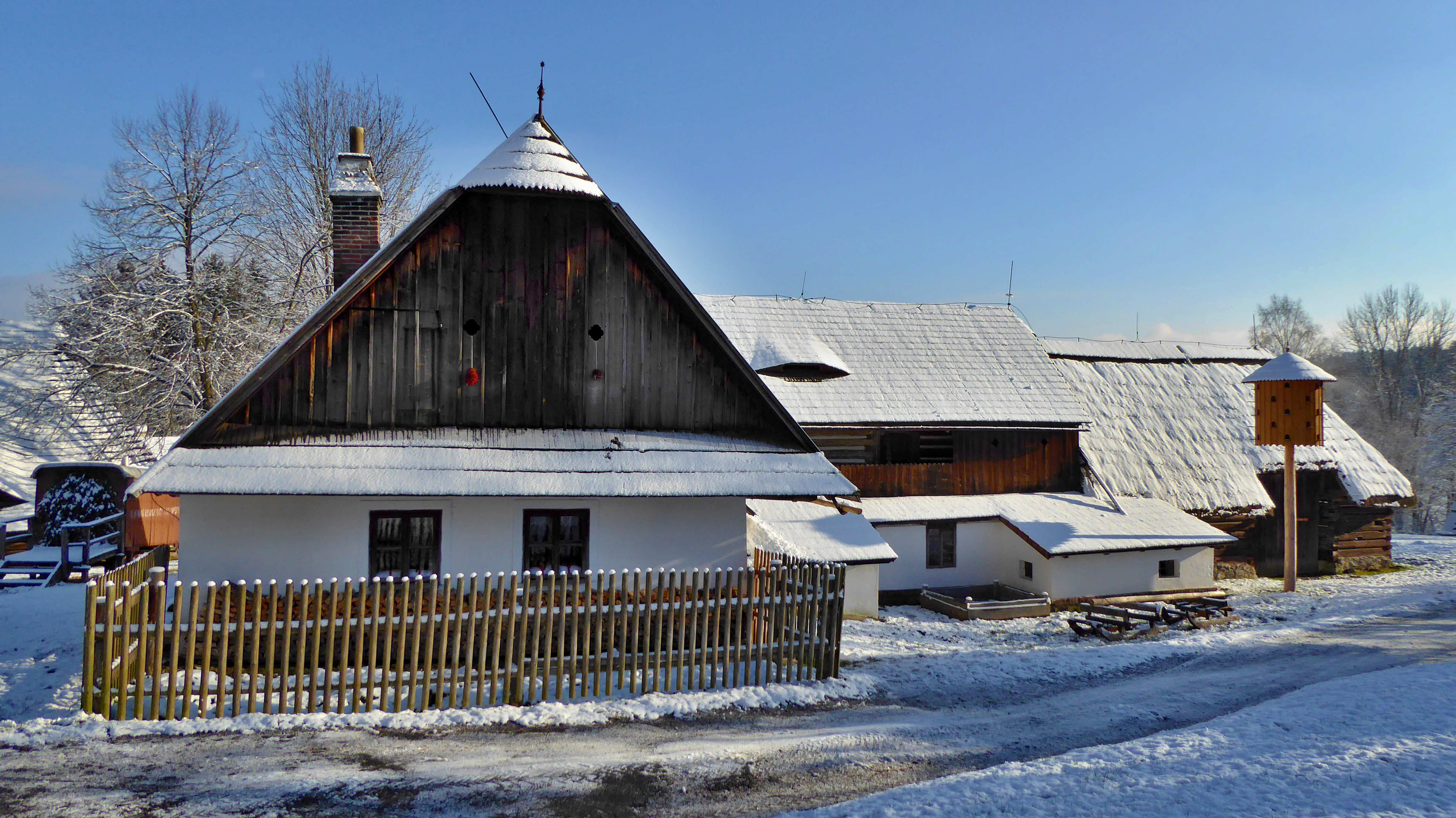 The original agricultural farm from the 17th century, building No. 4 in the Veselý Kopec settlement, from the 11th December 2018 the exposition of the Open-air Museum Vysočina (previously Set of Folk Buildings Vysočina within of the National Monument Institute). An important cultural monument of folk architecture was acquired in 2013 by the National Monument Institute and between 2014 and 2015, the farmhouse was renovated. The Open-air Museum Vysočina is a part of the National Open-air Museum in the Czech Republic, created on 11 December 2018. Photo-location: Czechia, Pardubice Region, municipality Vysočina, Merry Hill – the small hamlet and a exposition of folk architecture.